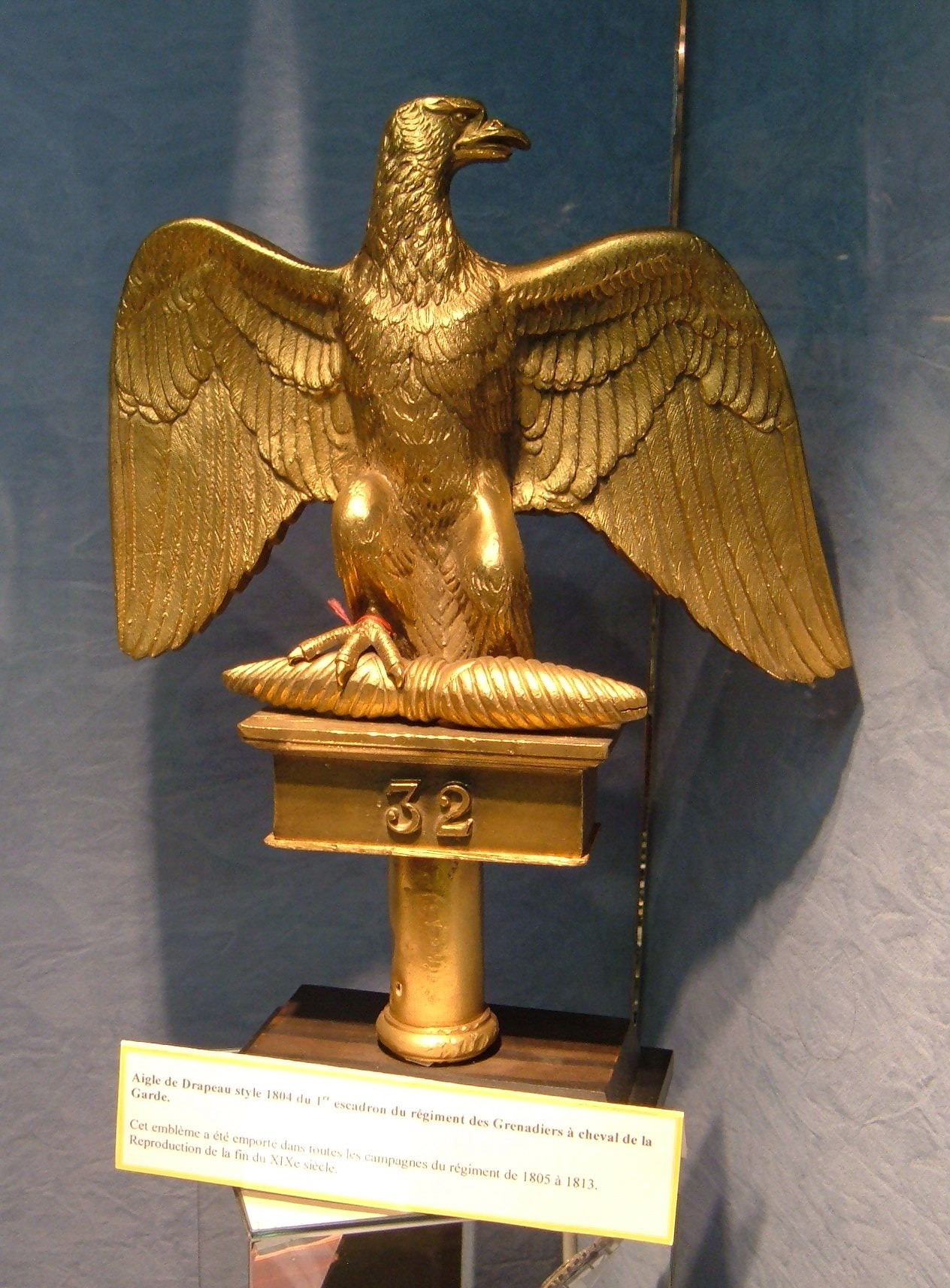 A French Imperial Eagle, probably from the 32nd regiment of infantry, on display at the Louvre des Antiquaires in Paris, France.